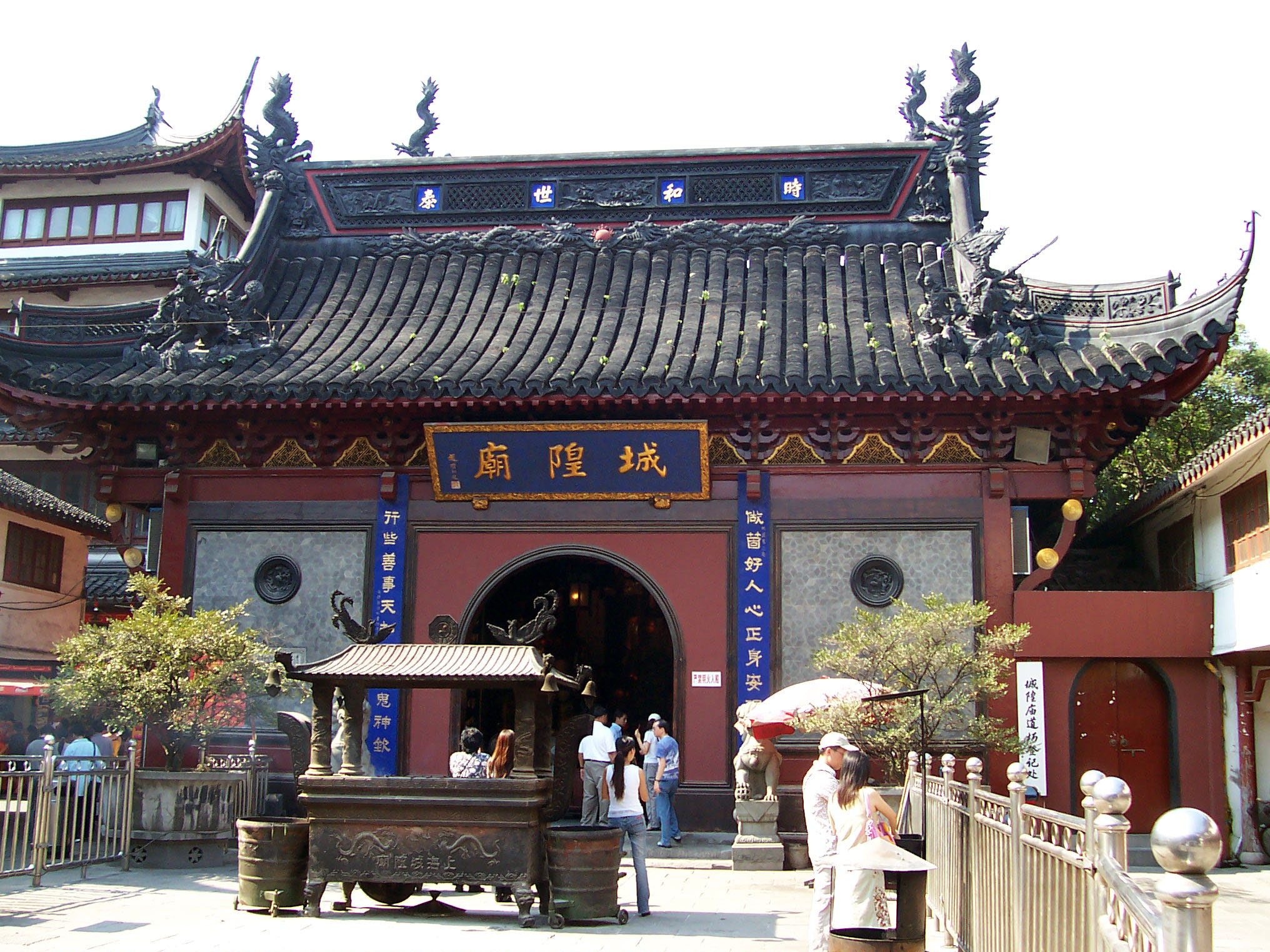 This is the City God Temple in Shanghai. In Chinese, it is called Chenghuang Miao.